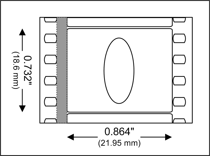 A frame of 35 mm CinemaScope camera film.